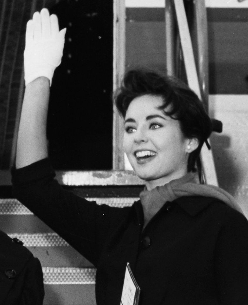 Miss Universe Carol Morris at Kastrup Airport CPH, Copenhagen 1958-05-14